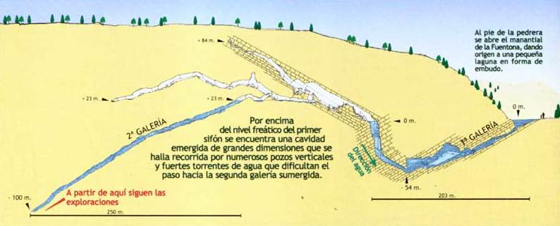 Plan of cave and large karst spring, Monumento Natural de la Fuentona, Spain